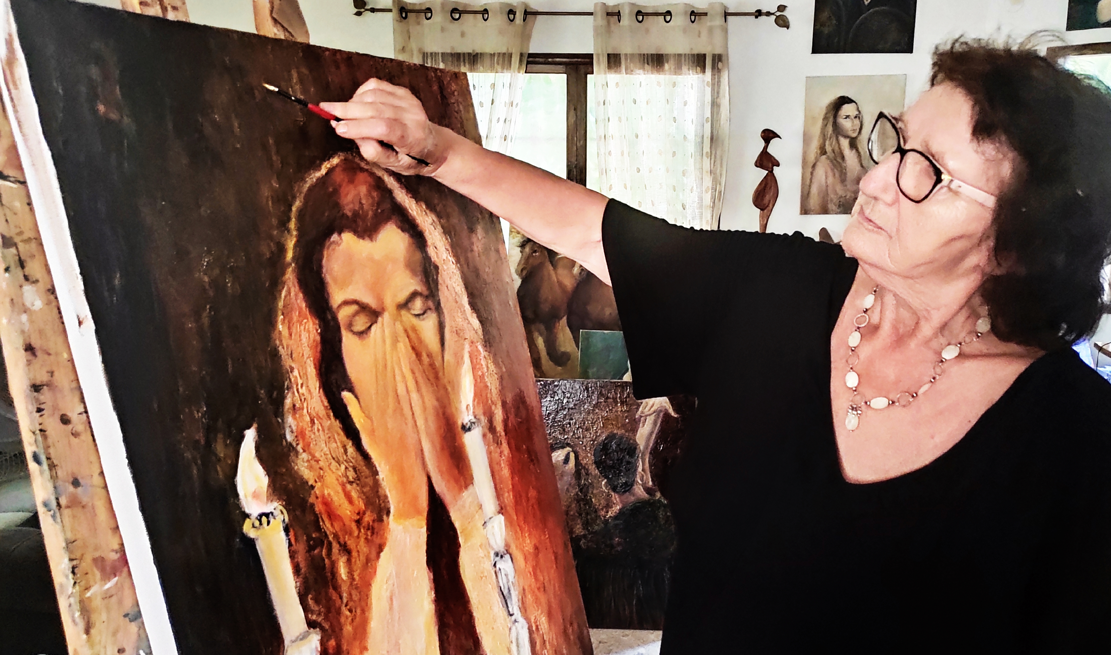 Sylva Zalmanson in her studio in Gan Yavne, Israel. Credit Anat Zalmanson Kuznetsov